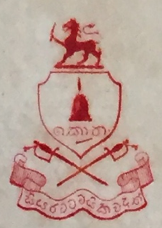 Sir John Kotelawala's Official Coat of Arms which is used in his official letters.